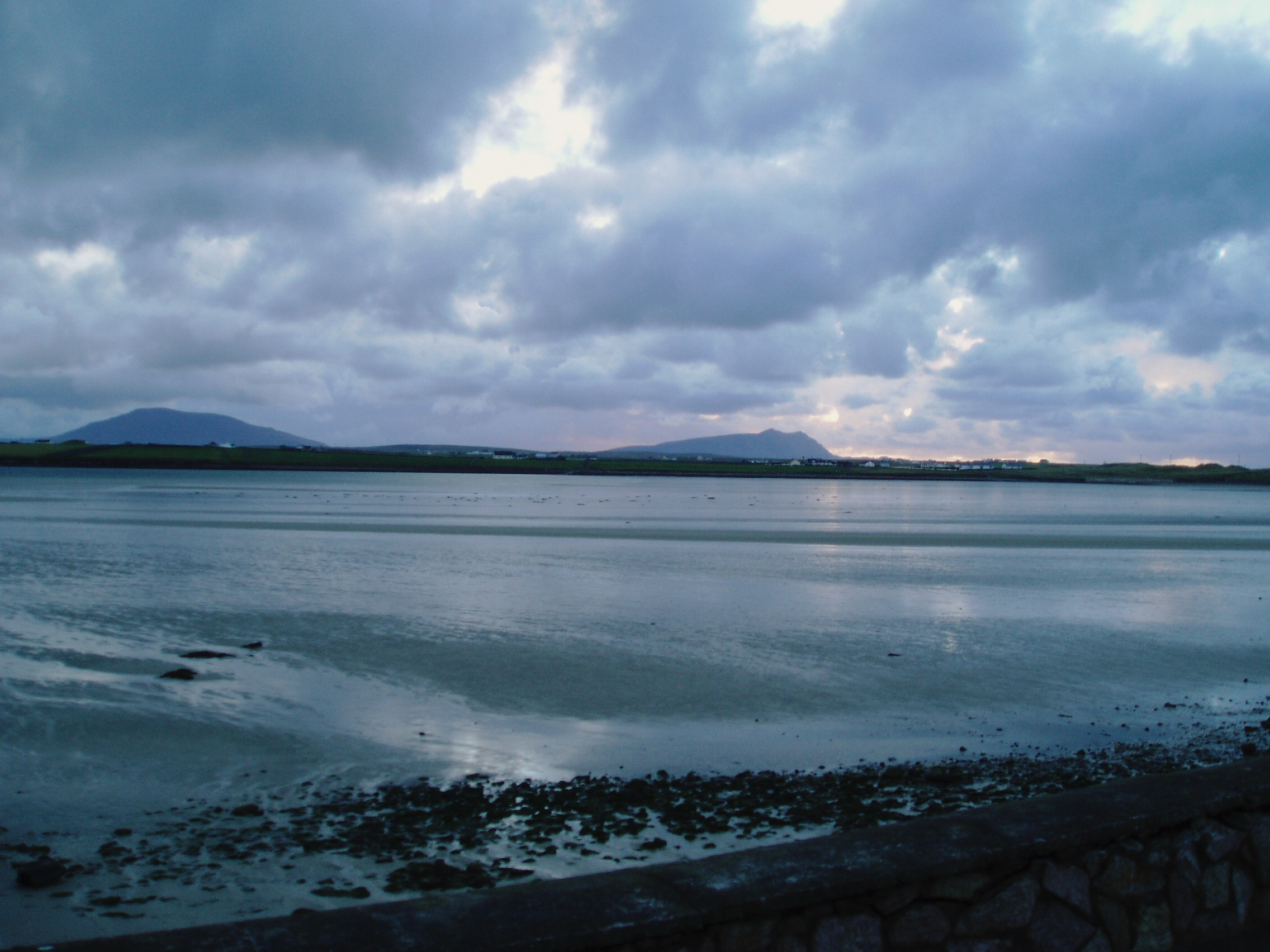 A view of Elly bay in winter. Elly bay is located on the Erris peninsula near Belmullet town.